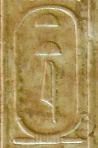 Cartouche 34, Abydos King List. Temple of Seti I, Abydos, Egypt